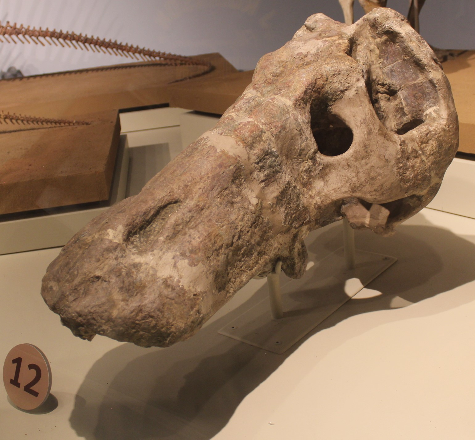 Jonkeria sp. skull on display at the Field Museum of Natural History.